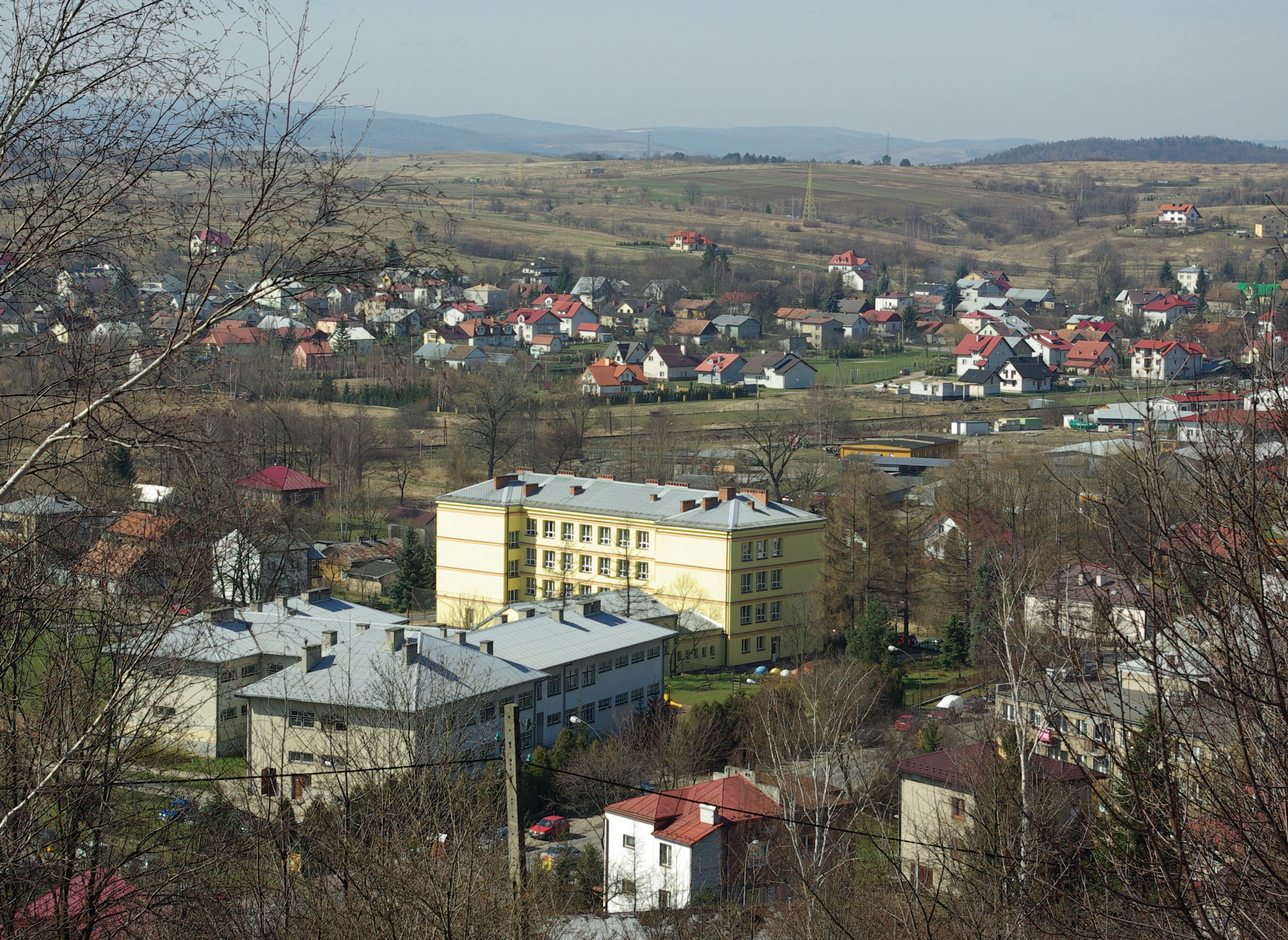 SP2 Sanok, Panorama of Sanok looking southern dorection